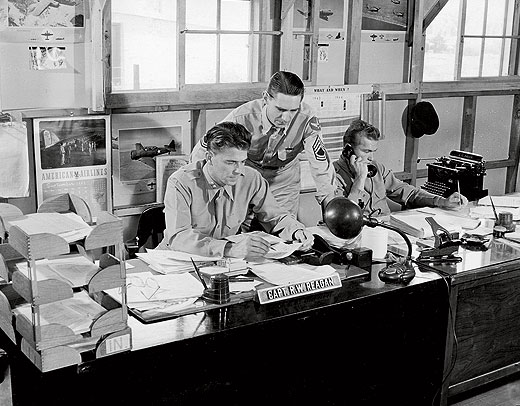 Captain Ronald Reagan in the Army Air Force working for the 1st Motion Picture Unit in Culver City, California. 1943-44.